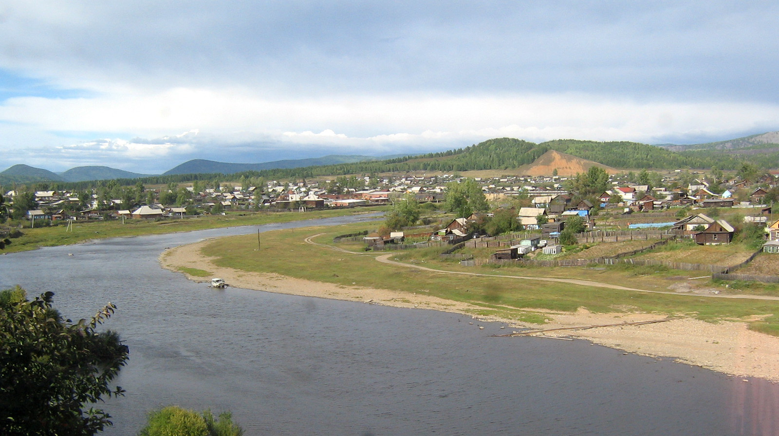 The town Mogocha in Zabaykalsky Krai, Russia. 2007.